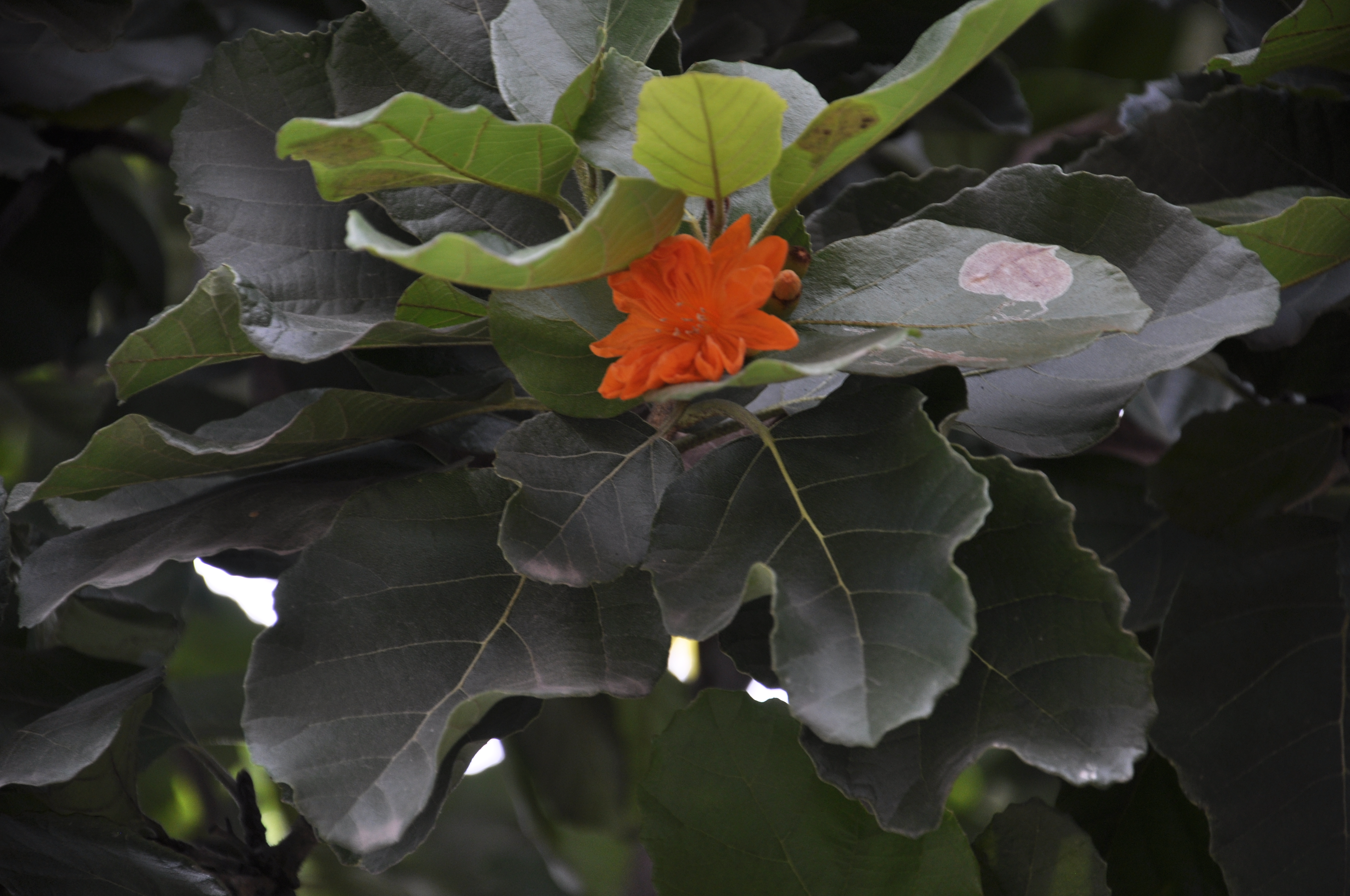 Cordia dodecandra con flor, en el arbolado urbano de Tuxtla